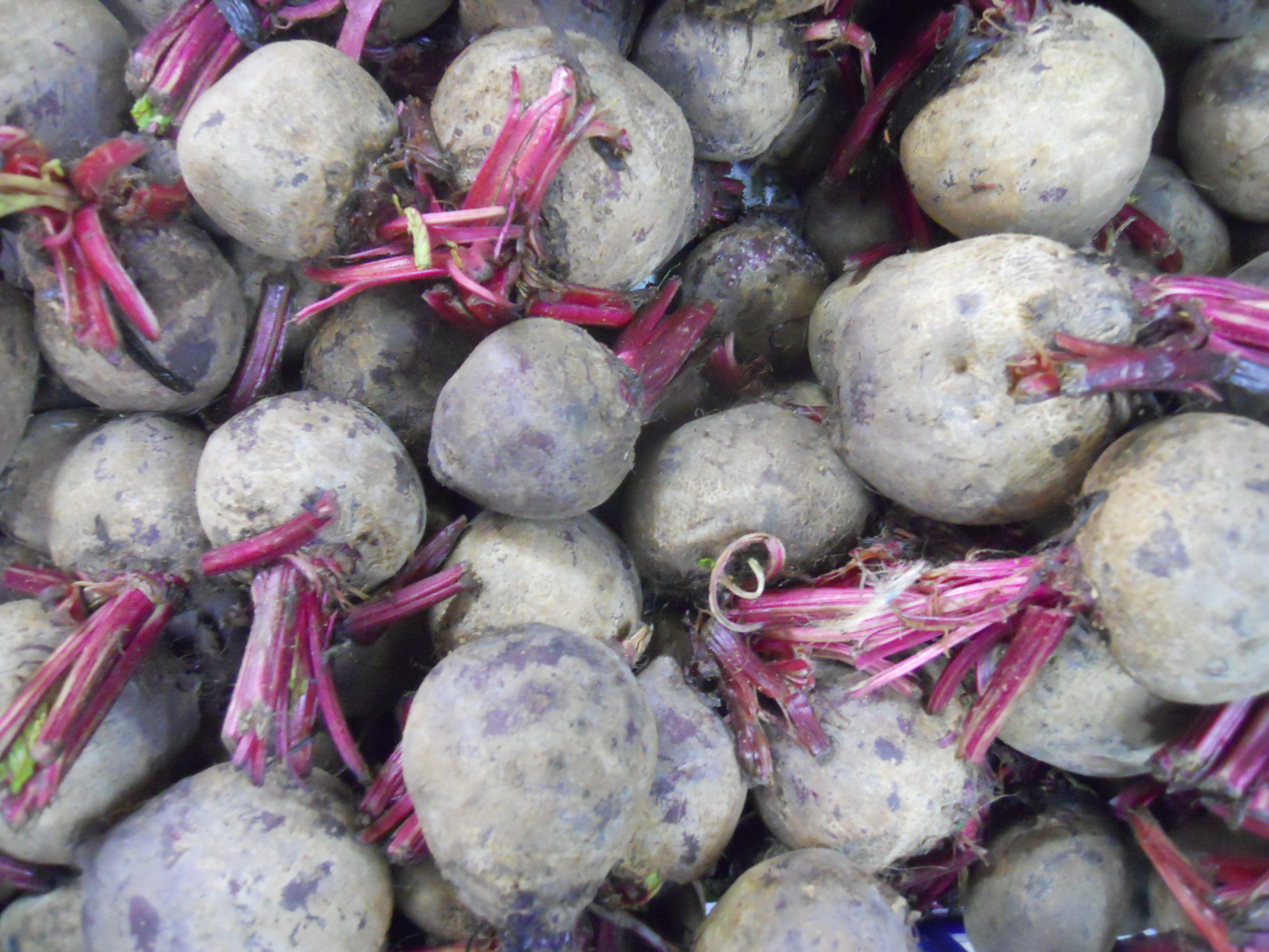 beet root vegetable